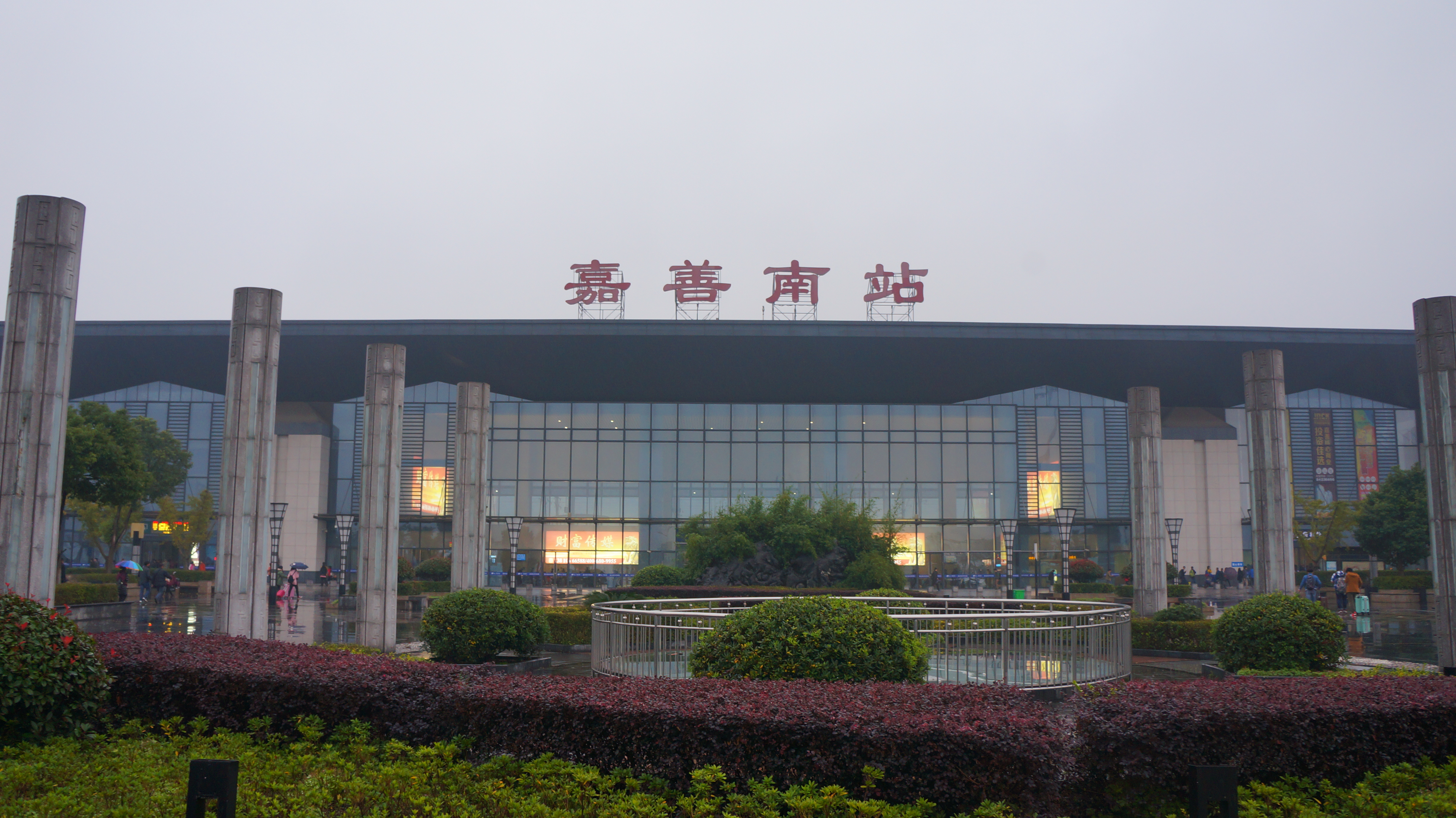 Facade of Jiashannan Railway Station